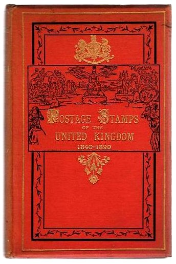 The cover of "Penny Postage Jubilee: a descriptive catalogue of all postage stamps of the United Kingdom of Great Britain and Ireland issued during fifty years." London: Sampson Low, 1891.